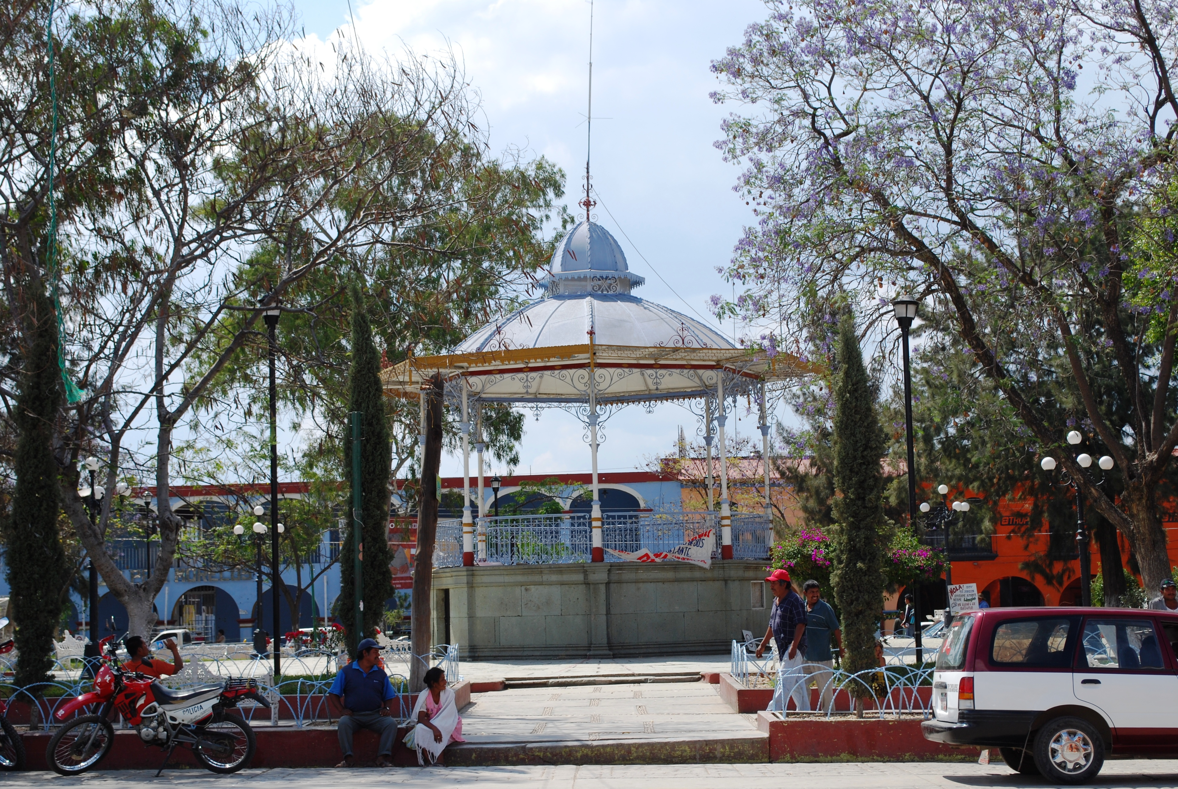 Kiosk in the main plaza of Ocotlan de Morelos, Oaxaca, Mexico